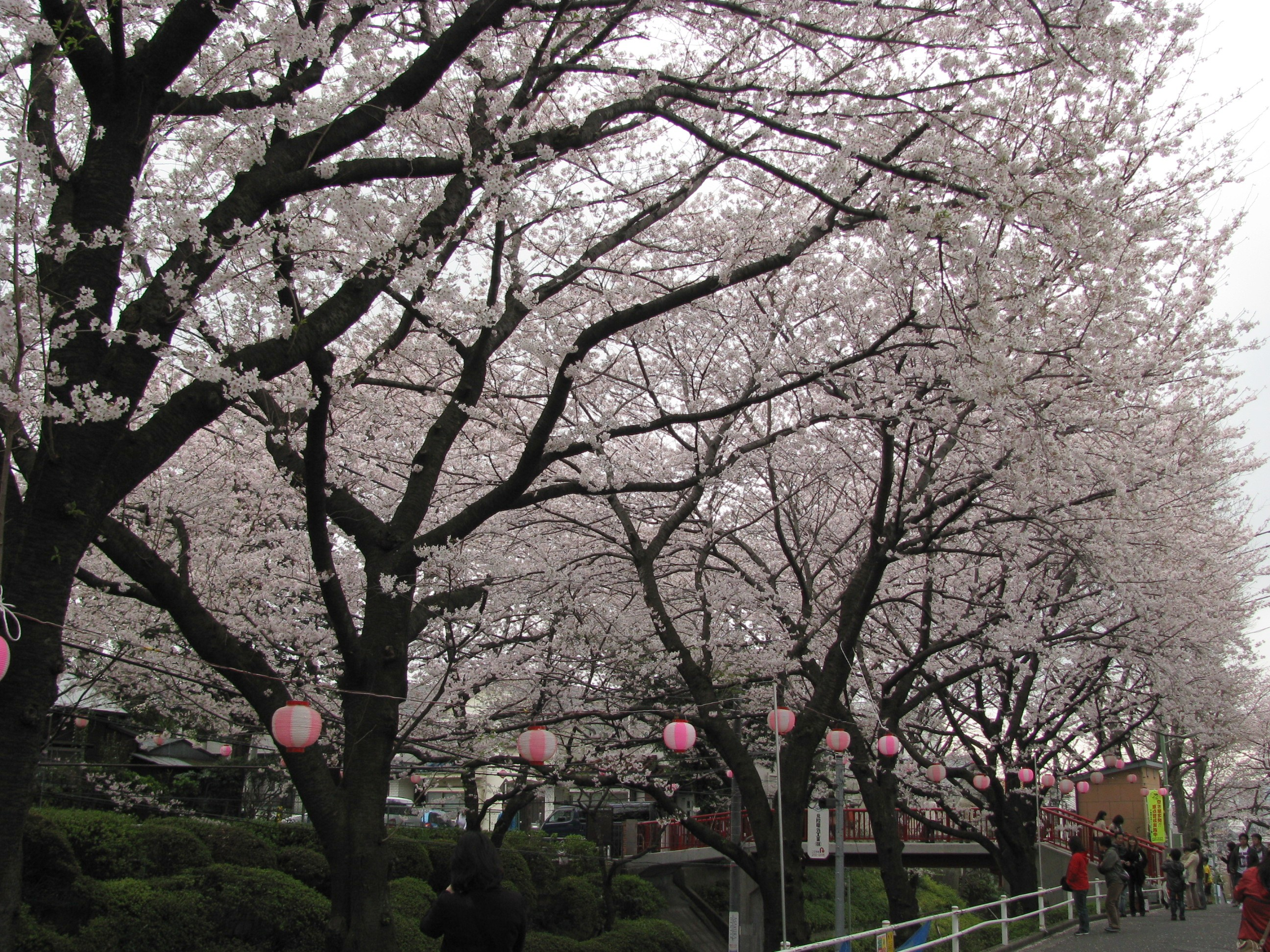 The Sakura-zaka (Cherry blossoms slope) is located in Denenchohu, Ota, Tokyo, Japan.